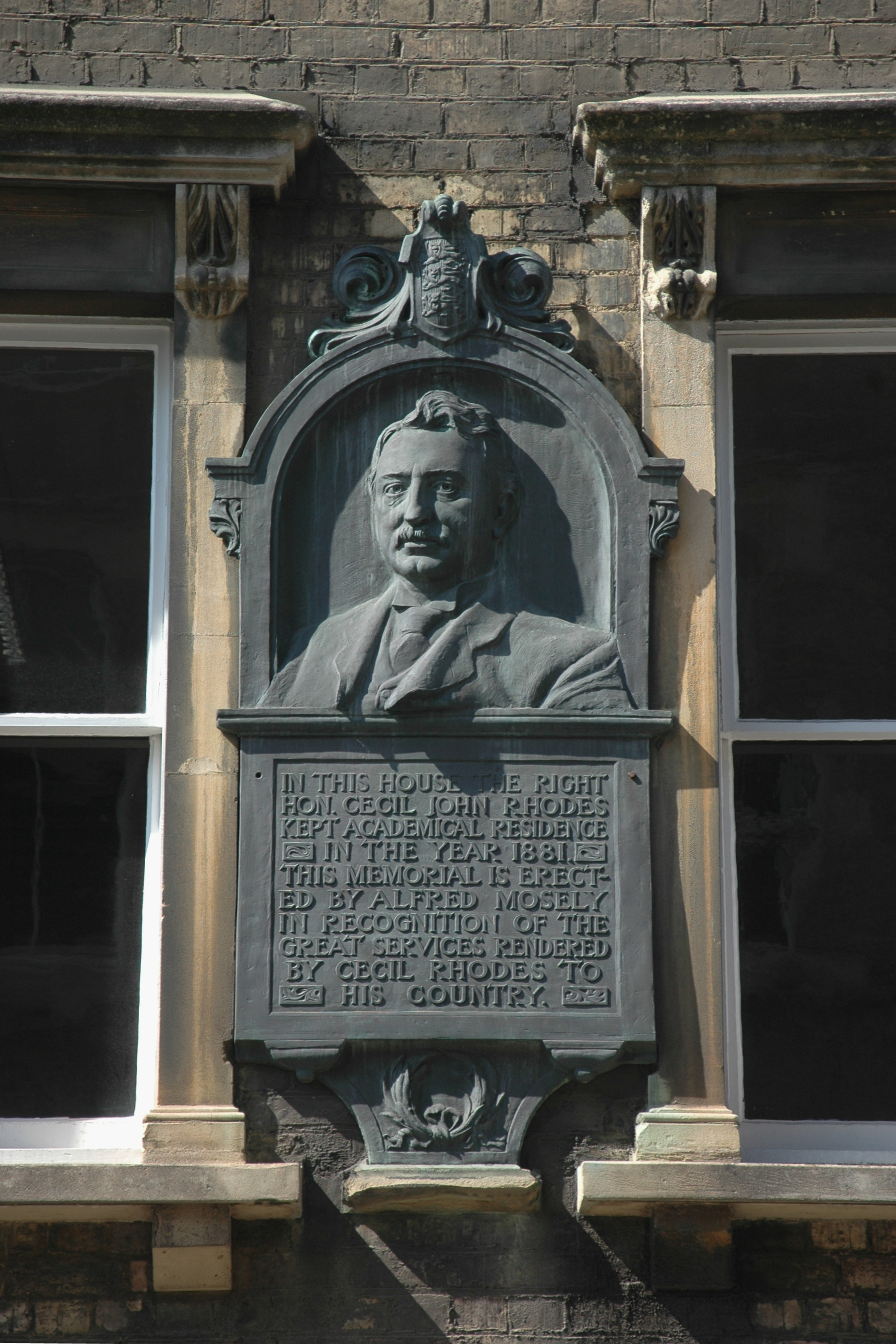 Monument to Cecil Rhodes in Alfred Street, Oxford